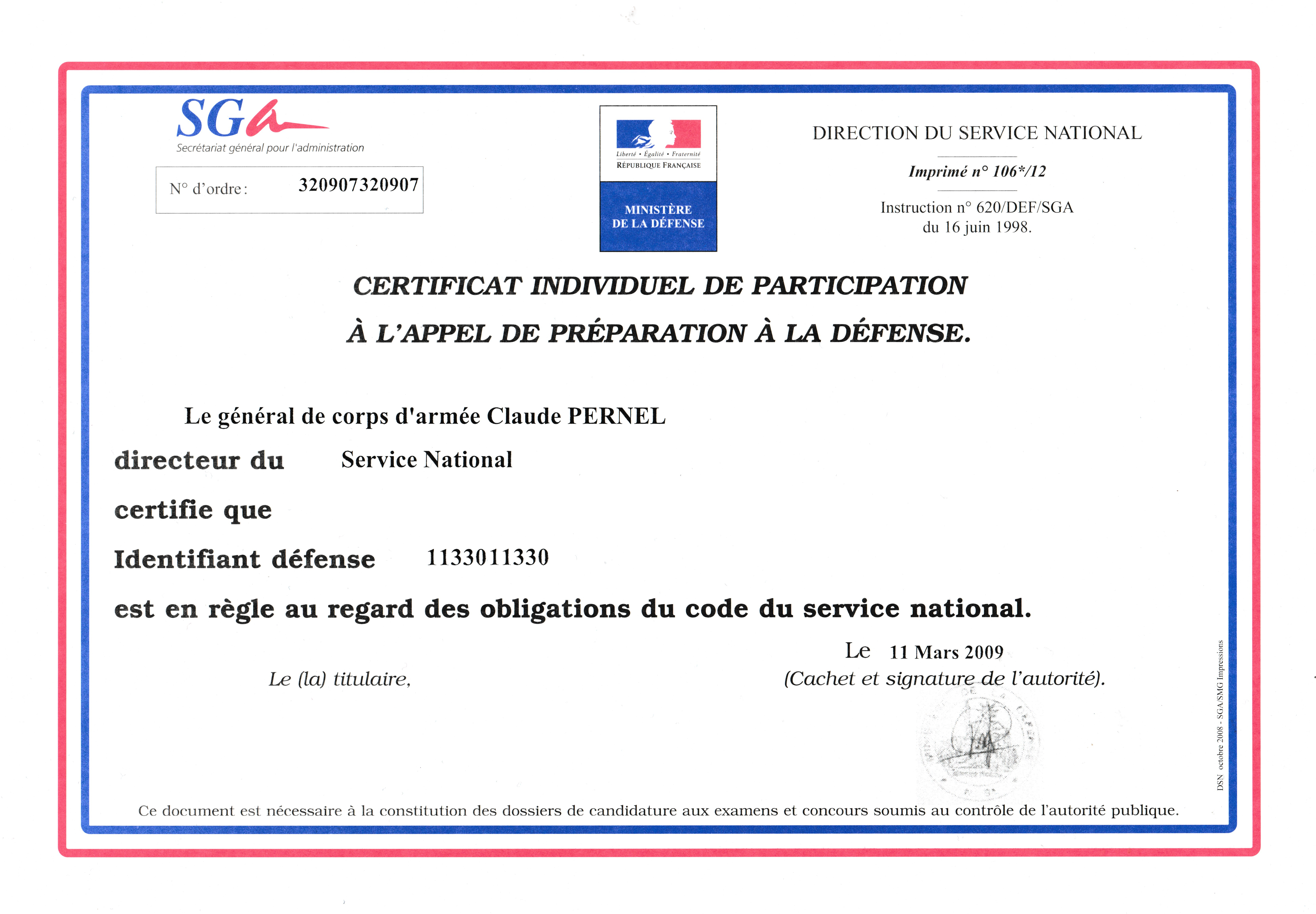 Certificate of participation in the Defense and Citizenship Day